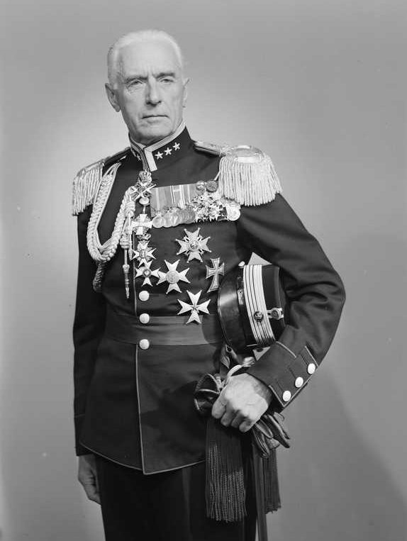 Nikolai Ramm Østgaard (1885-1958), Norwegian officer, aide de camp to Crown Prince Olav of Norway, footballer and President of the International Ski Federation (FIS) 1934-1951.